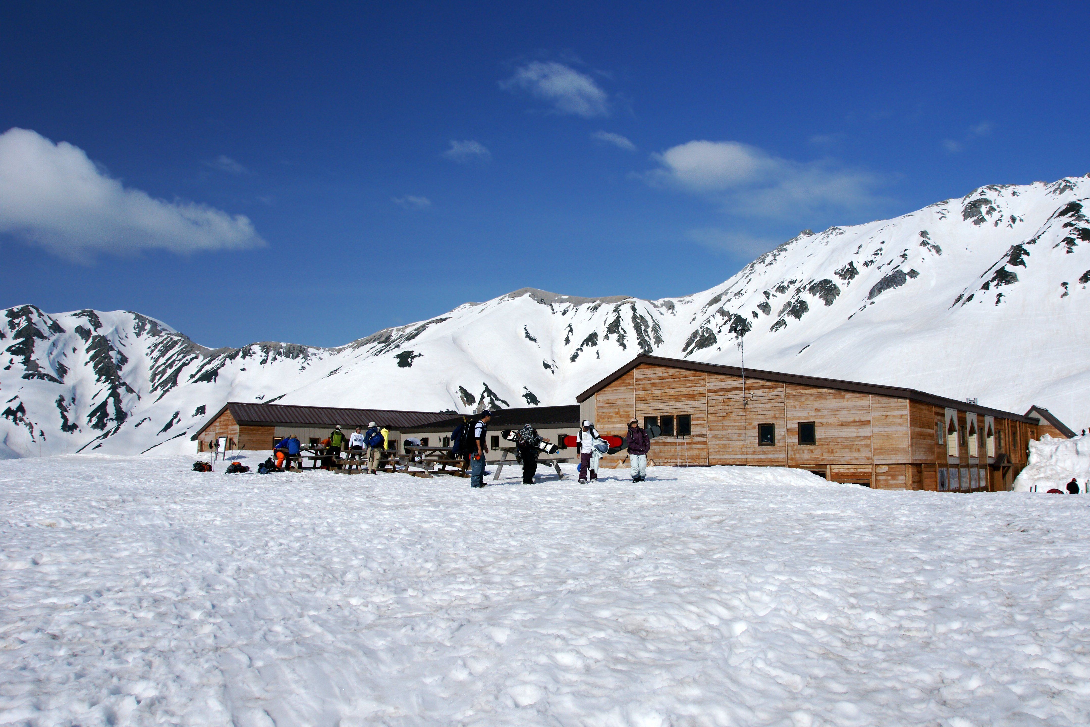 Tateyama Murodo Sanso in Tateyama, Toyama prefecture, Japan.